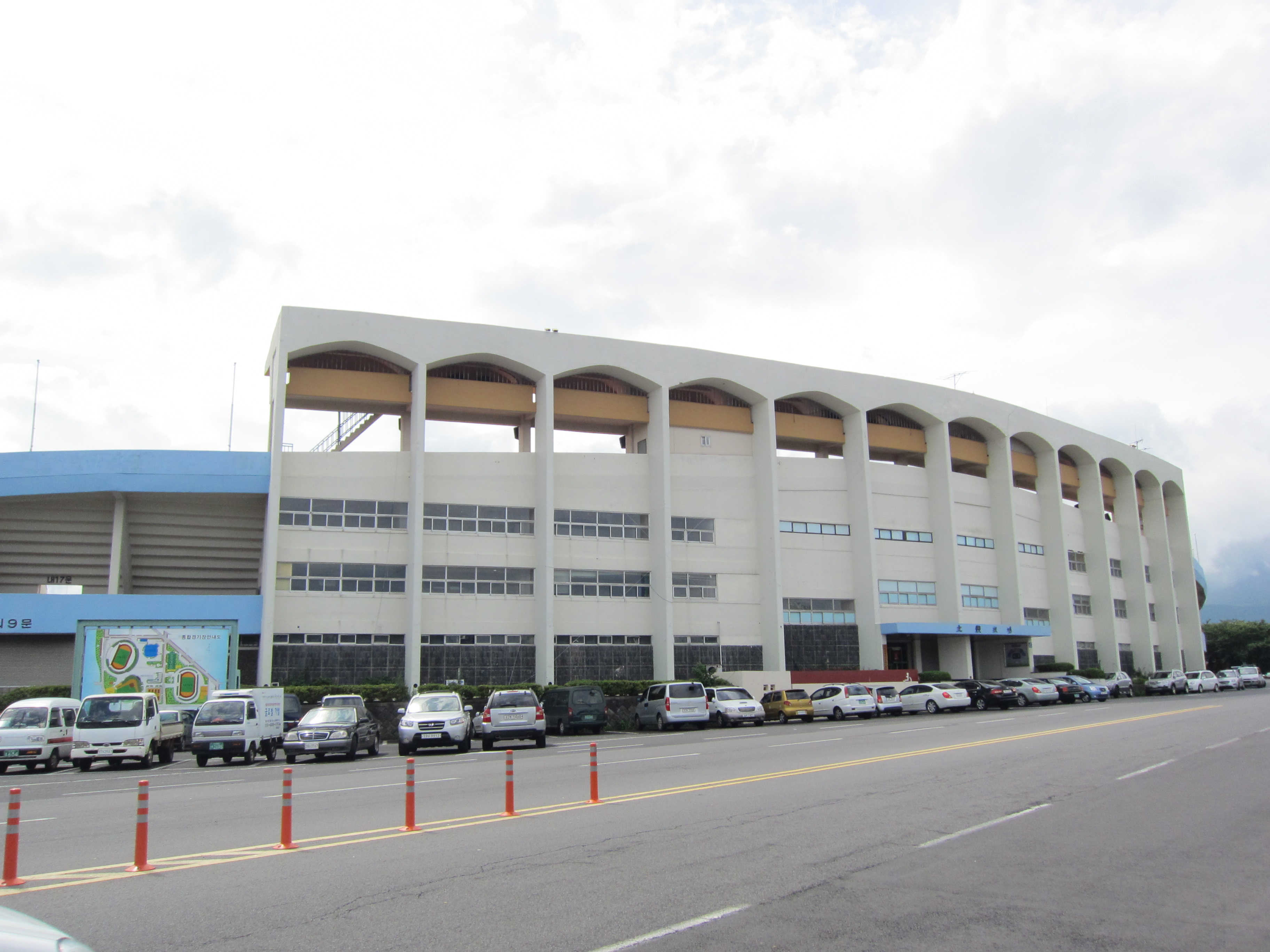 Jeju Sports Complex